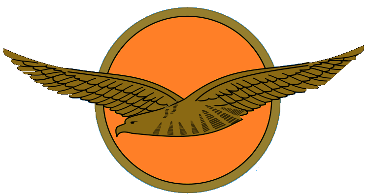 Pilot Wings Royal Netherlands Airforce